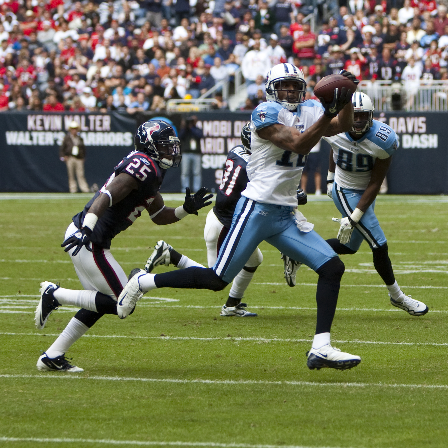 Justin Gage of the Tennessee Titans defended by Kareem Jackson of the Houston Texans.